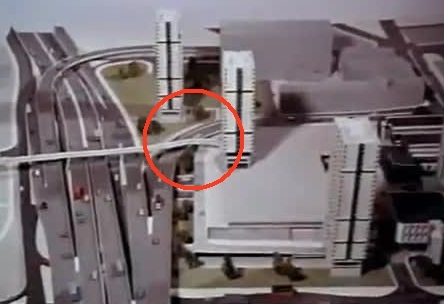 Model of the M8 Glasgow Inner Ring Road - image generated to show the intended course of the Anderston Pedestrian Footbridge, abandoned in 1971.